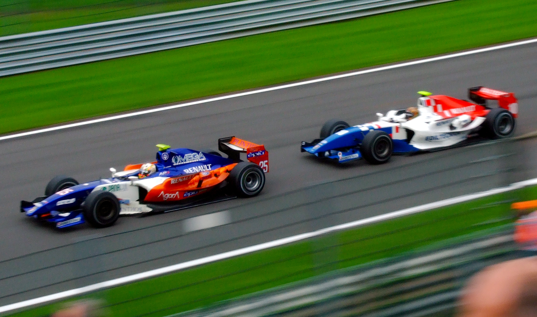 Adrian Zaugg (Trident) leads Davide Valsecchi (iSport) at the Circuit de Spa-Francorchamps round of the 2010 GP2 Series season.